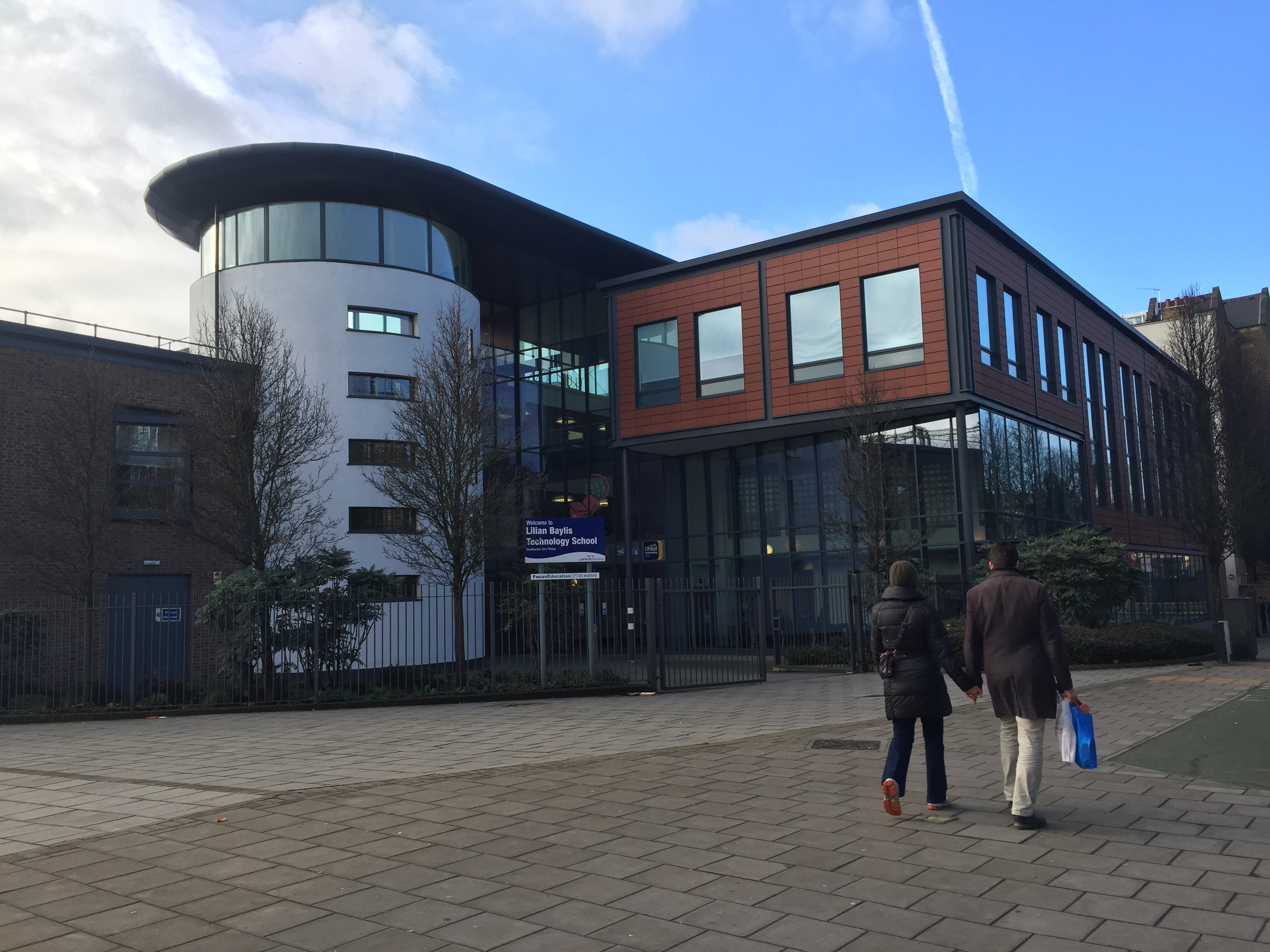 The front entrance of the school in February 2016